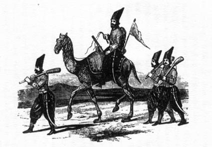 Illustration in page 185 of Lady Sheil's book on Persia, depicting soldiers with a camel mounted small cannon (zanboorak.)